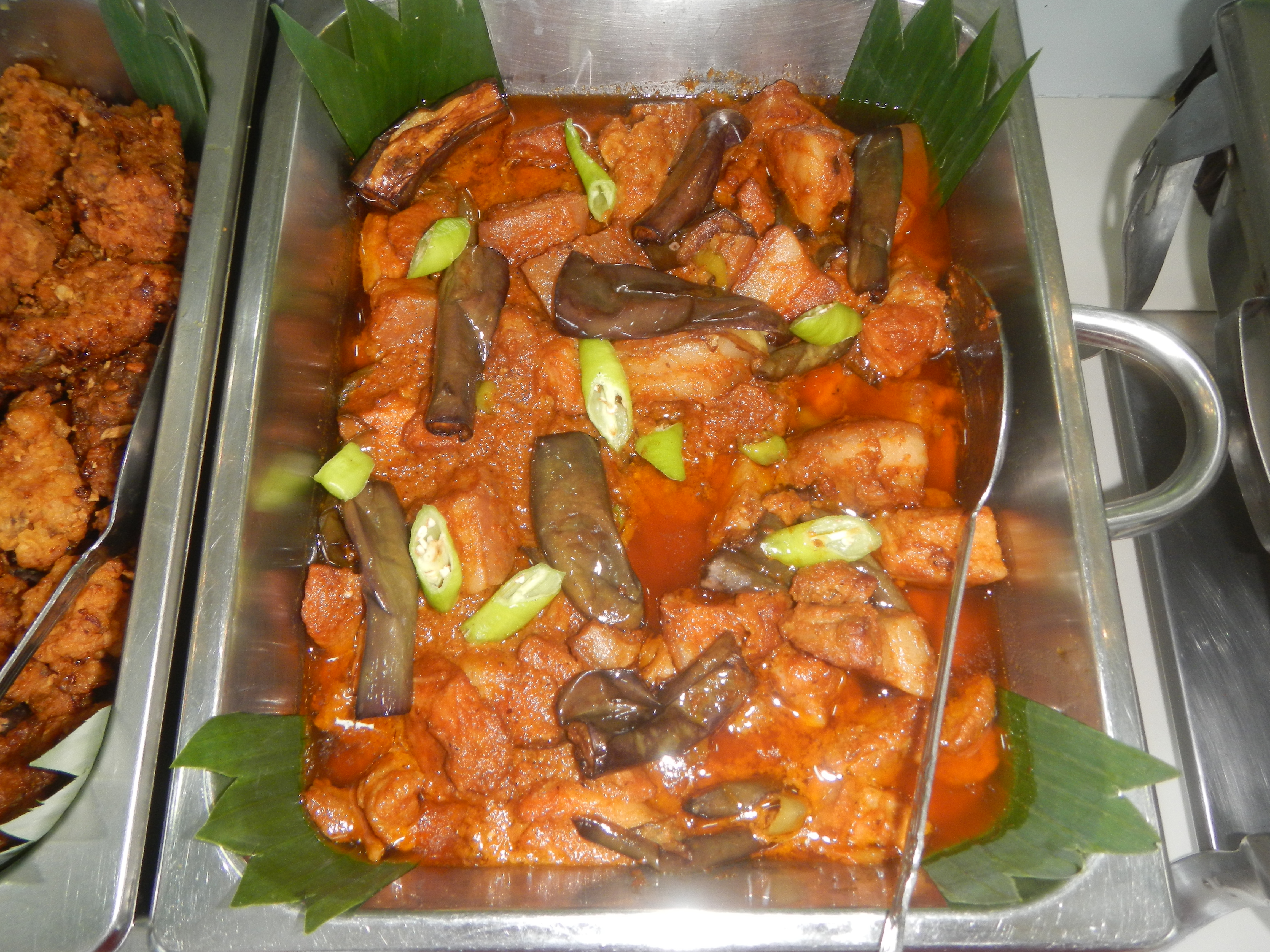 Cuisine and foods of Baliuag, Bulacan (Note: Judge Florentino Floro, the owner, to repeat, Donor Florentino Floro of all these photos hereby donate gratuitously, freely and unconditionally all these photos to and for Wikimedia Commons, exclusively, for public use of the public domain, and again without any condition whatsoever).